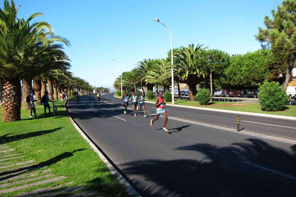 Half an hour into the run, African athletes at the Lisbon Marathon 2013 (officially styled as the "EDP Rock'n'Roll Maratona de Lisboa") had the road pretty much all to themselves. Paul Lonyangata (Kenya) won with 2:09:46. It was a hot day and Oeiras, thanks to its obsessive palm-tree planting, provided a helpful "Switzerland-of-Africa" backdrop for a good part of the run.